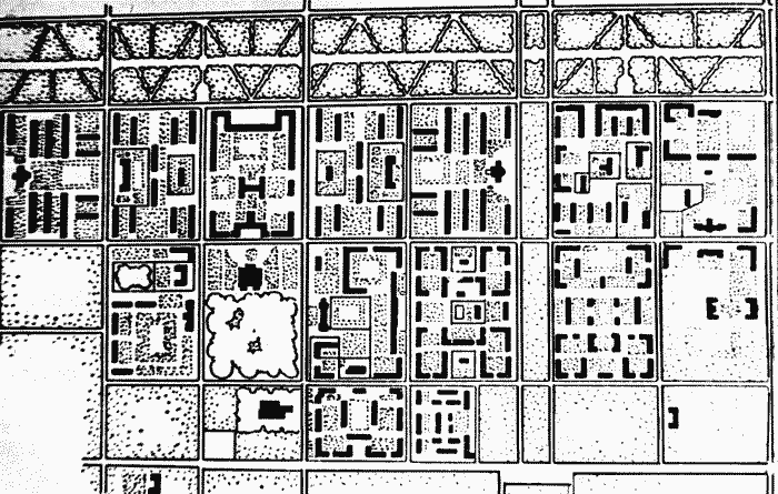 KhTZ Village development scheme